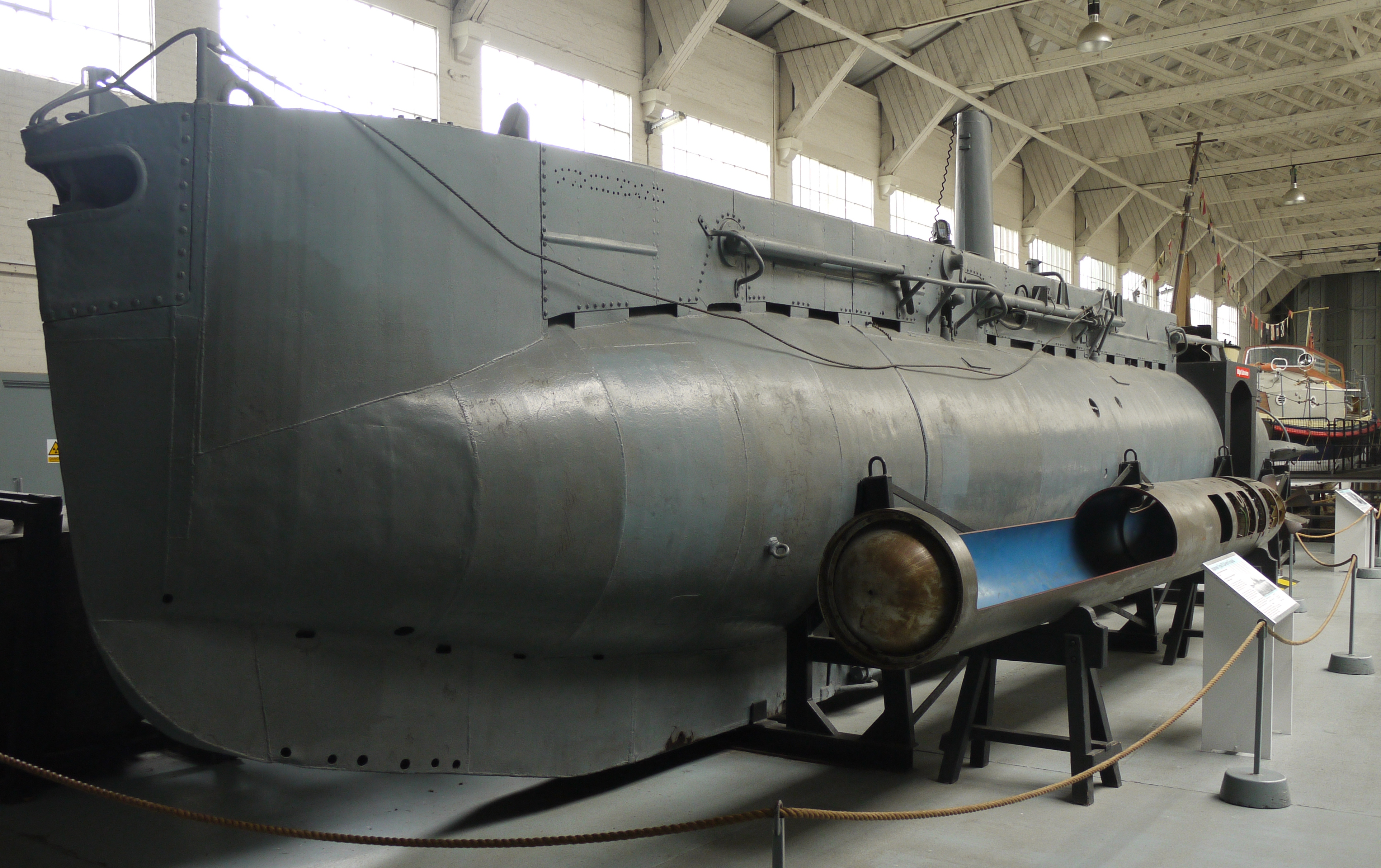 Photo of X51 Stickleback Stickleback class midget submarine